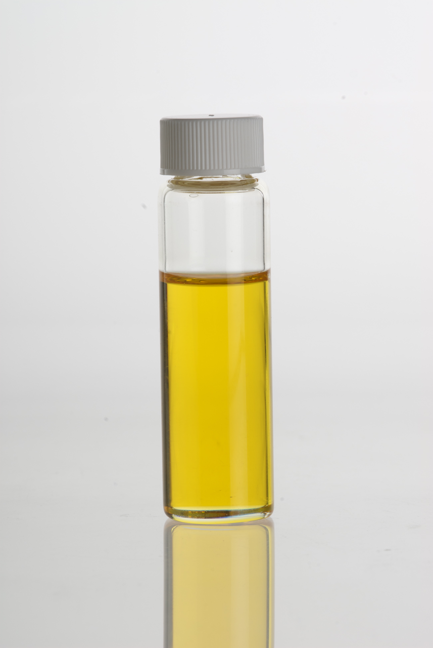 Wheatgerm Oil in clear glass vial